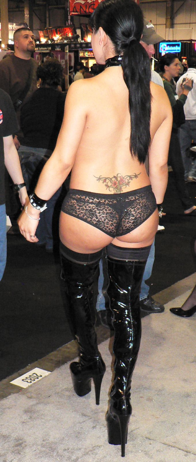 Topless woman in latex boots, with tattoo on lower back